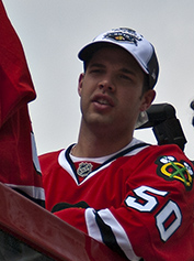 Corey Crawford durin the Blackhawks Victory Parade in 2010